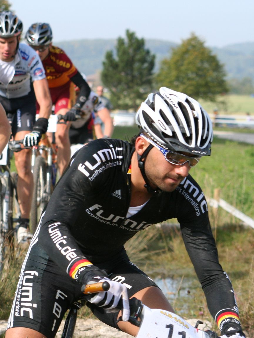 Manuel Fumic at German Marathon Championchips in Münsingen